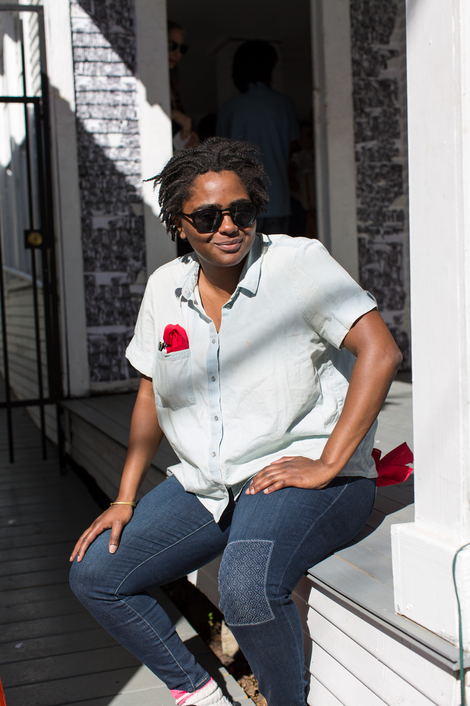 Portrait of artist Sam Vernon by Tiffany Smith